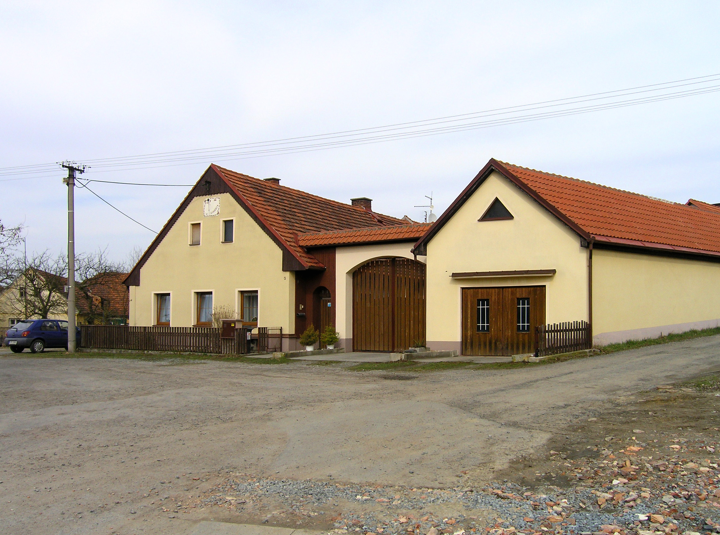 Old farm in Česká Bříza, Czech Republic